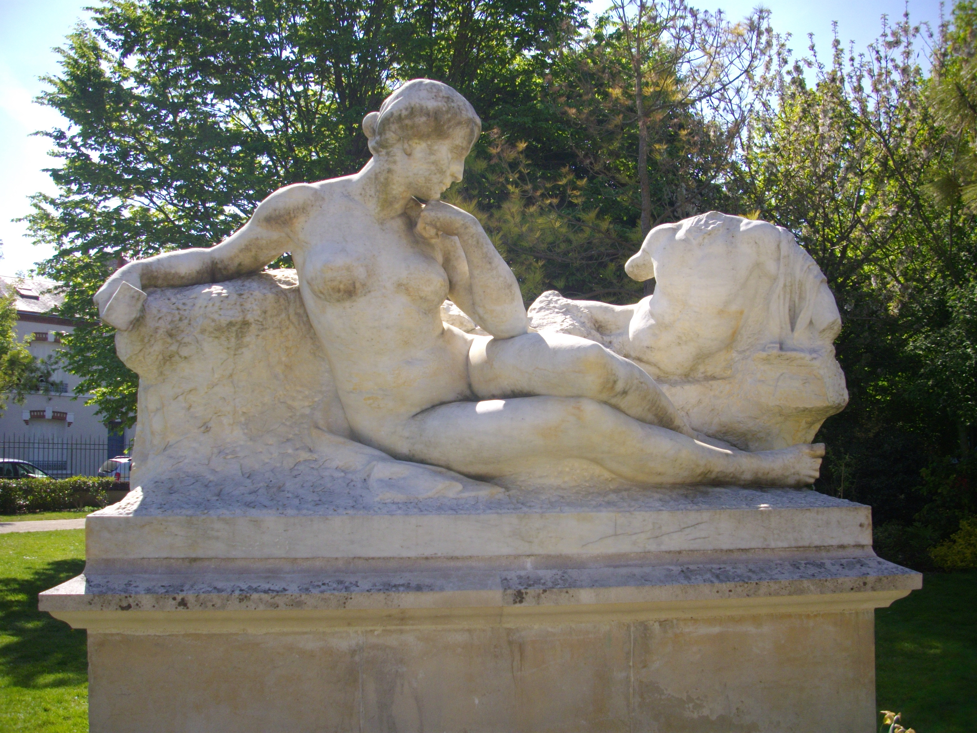 Pasteur park of Orléans (Loiret, France) : The Sculpture of Léon Fagel